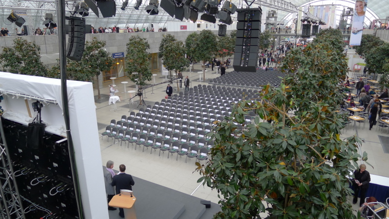 Leipzig Book Fair,Big Hall, Award of the Leipzig Book Fair